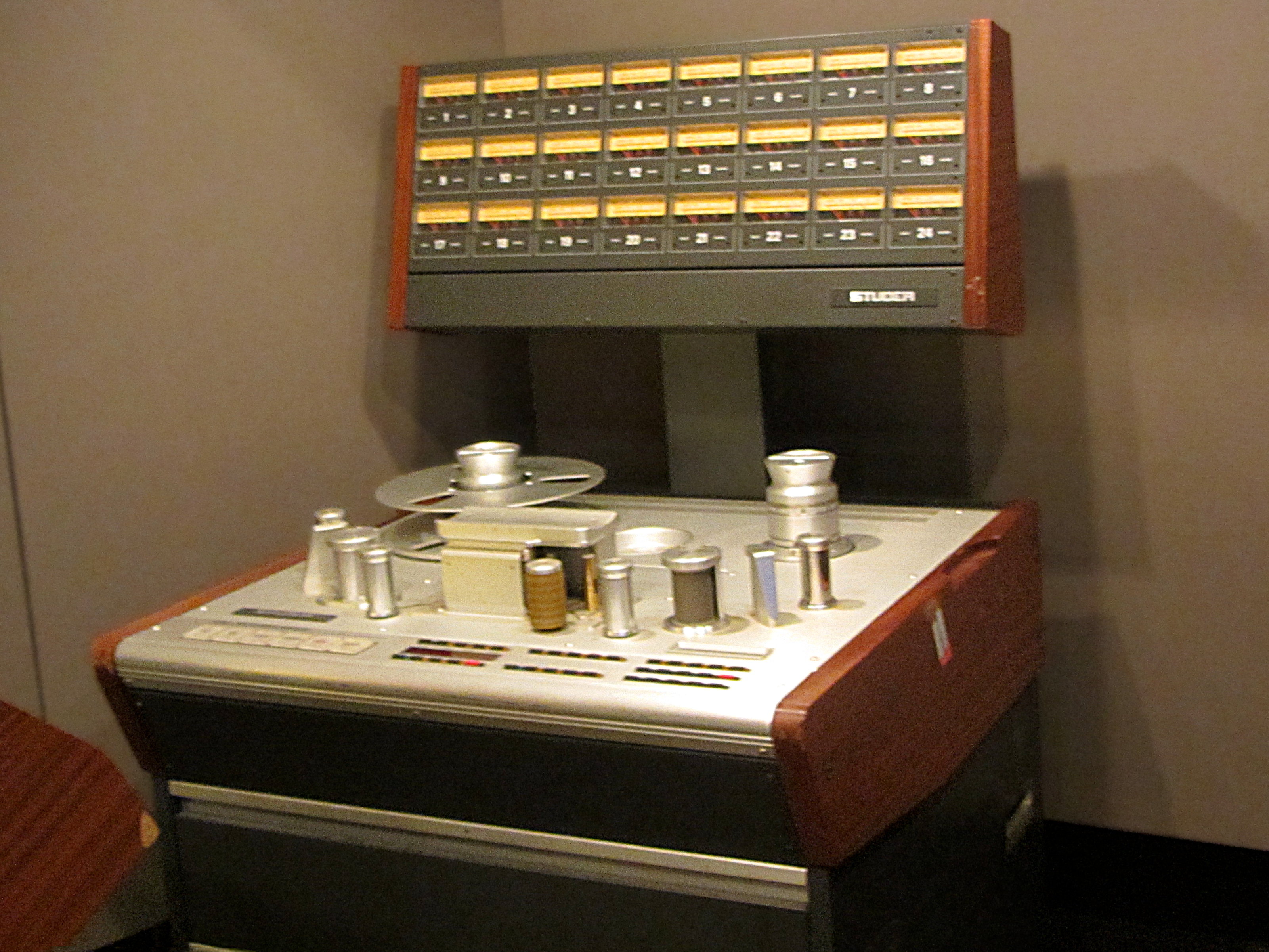 Studer A827 analog 2" 24-track (one optional 16-track headstack) "they can still record in analogue, which sounds waaaay better :hipster:" References Studio Equipment List - Tape Machines. Atdent Studios.